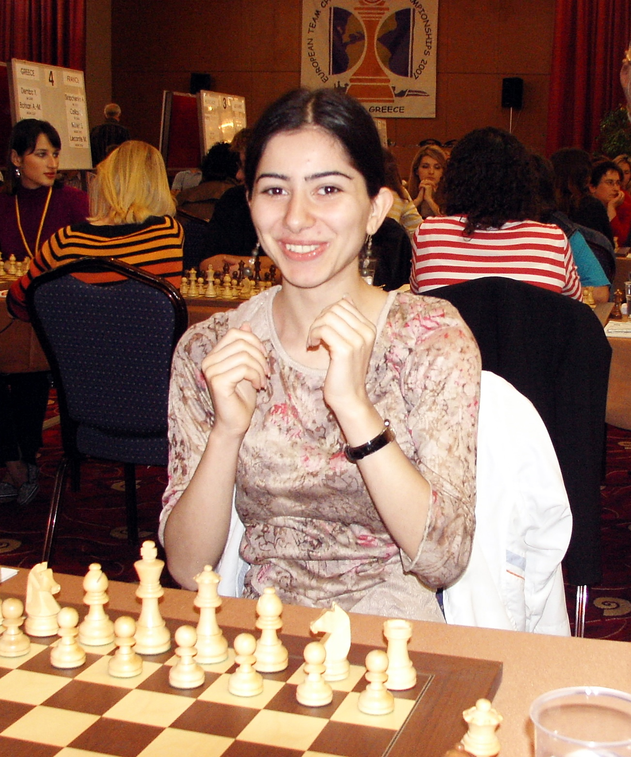 WGM Lilit Mkrtchian Armenia, EuroChess Iraklion 2007